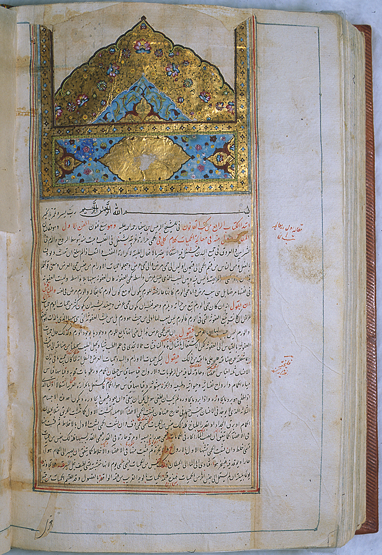 Illuminated opening of the fourth book of the Kitab al-Qanun fi al-tibb (The Canon on Medicine) by Ibn Sina (Avicenna). Undated; probably Iran, beginning of 15th century. The illumination is typical of products from Timurid workshops of the en:15th century. U.S. National Library of Medicine, 8600 Rockville Pike, Bethesda, MD 20894 Category:Illuminated manuscript images